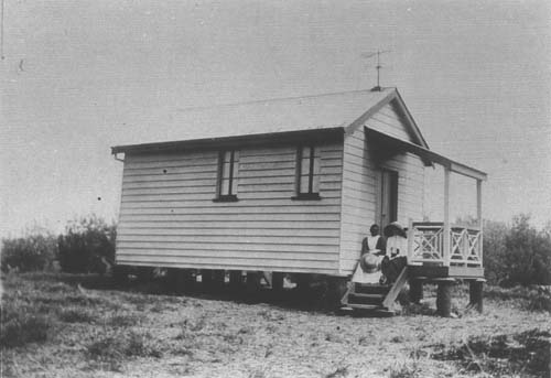 School at Double Island Point, ca 1900. This school was at Double Island Point from 1884 to 1922.